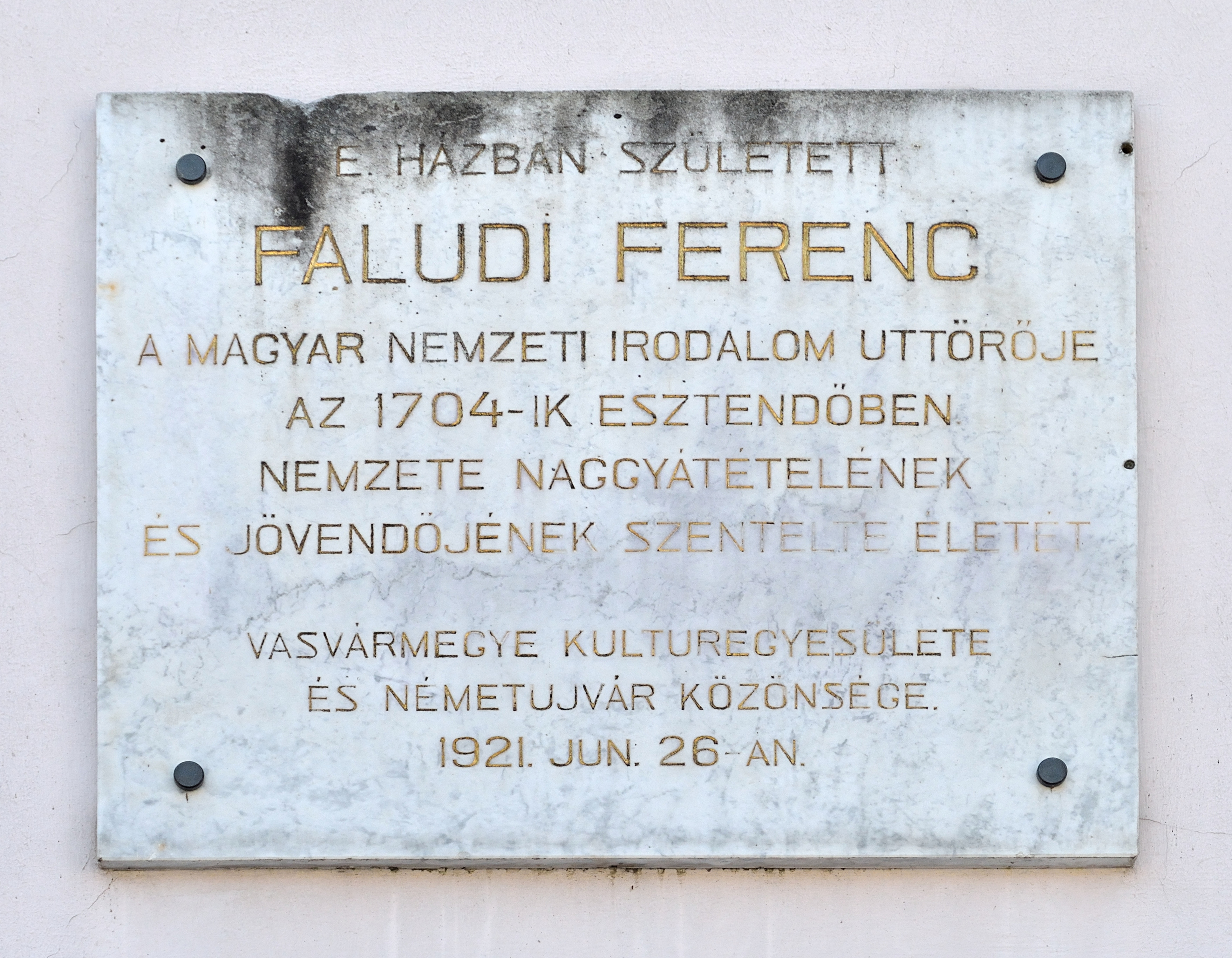 Plaque for Ferenc Faludi at Faludigasse, Güssing, Burgenland.